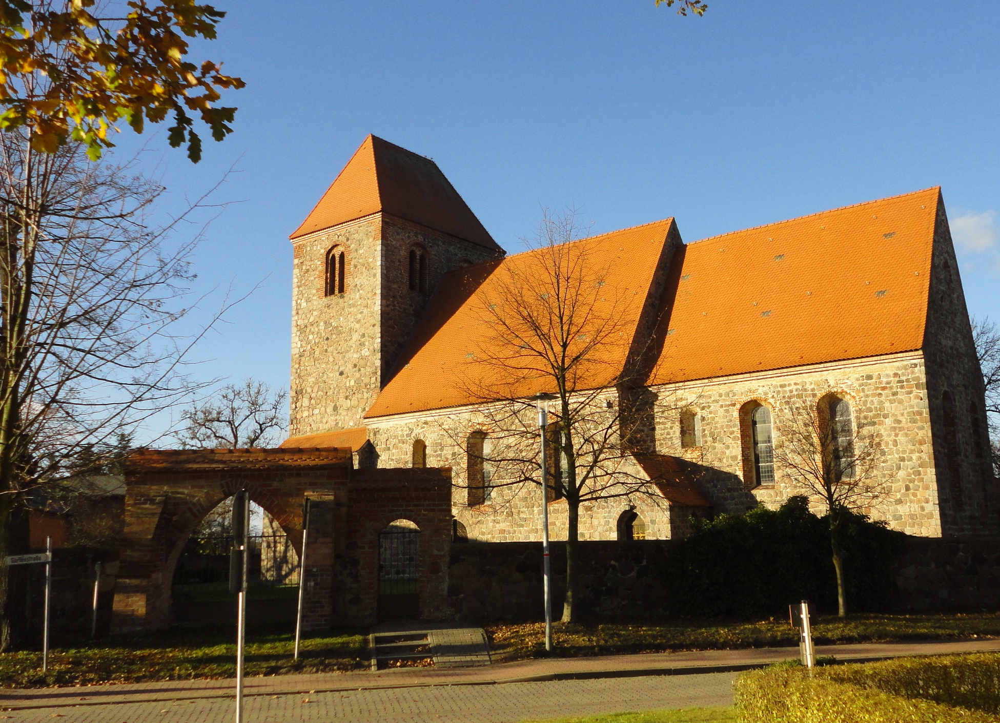 South-south-eastern view of the church in Heckelberg , Heckelberg-Brunow municipality, Märkisch-Oderland district, Brandenburg state, Germany